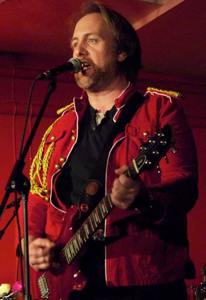 Comedian and writer Mitch Benn performing at the Distraction Club in London